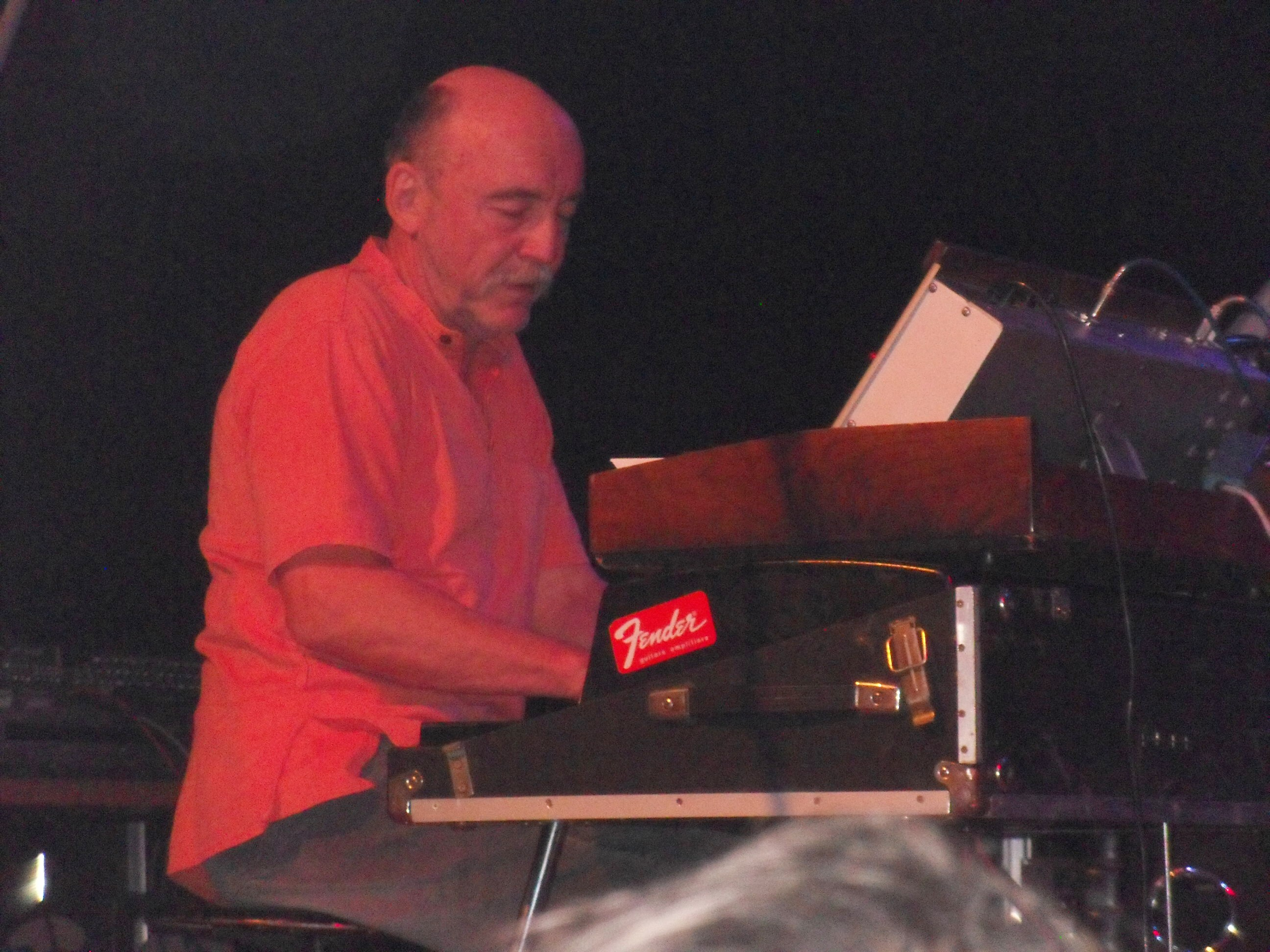 Keyboardist Martin Kratochvíl of Czech band Jazz Q, Brno, Czech Republic